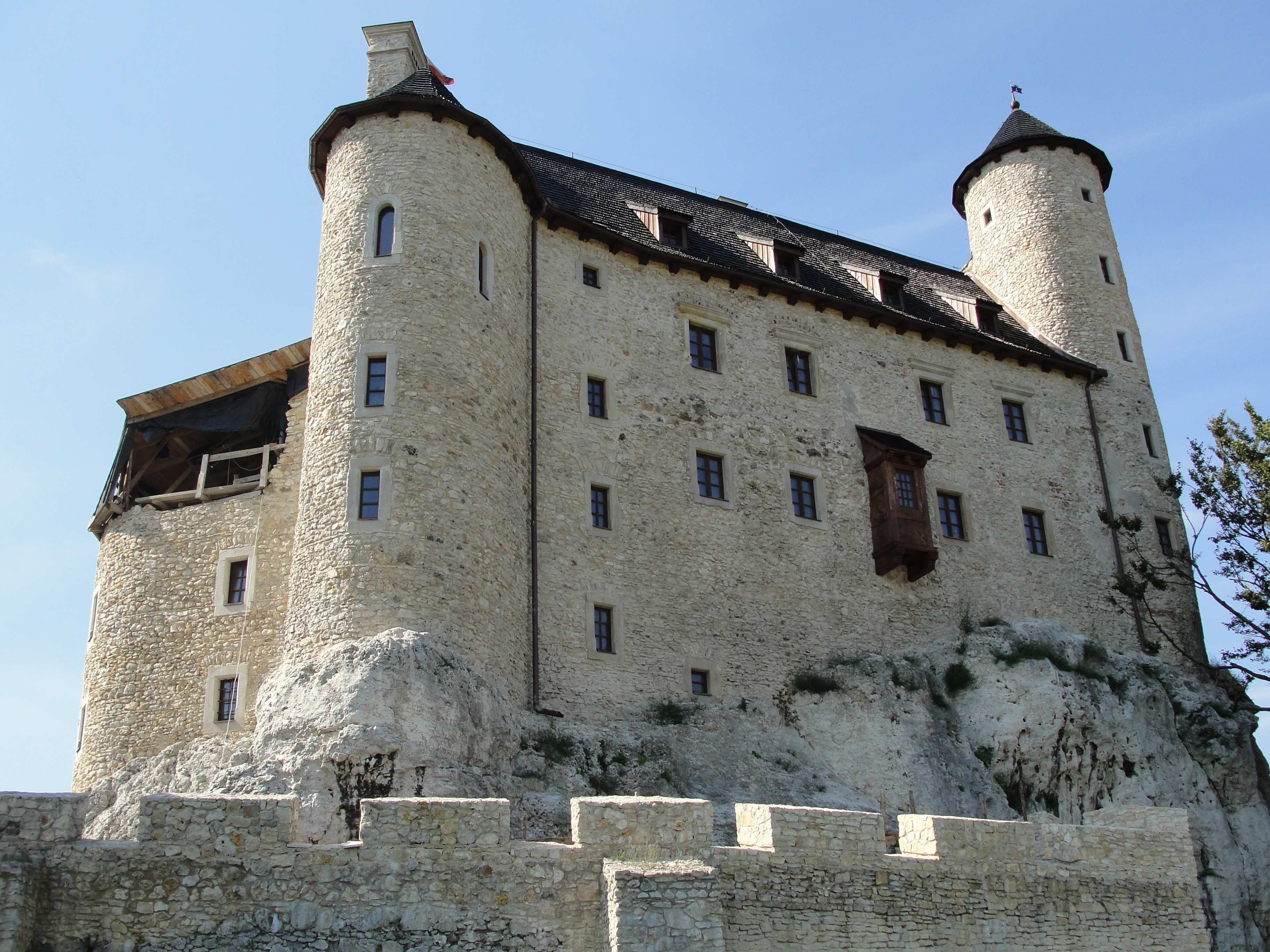 Bobolice castle in Poland, reconstruction state of August 2010.